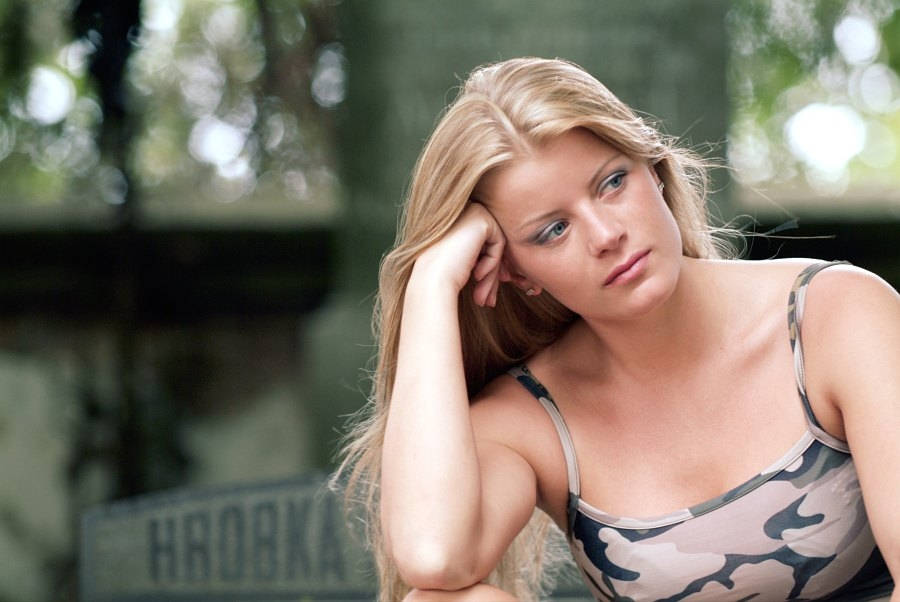 Czech adult model and actress Lea De Mae. Photo taken in Prague.